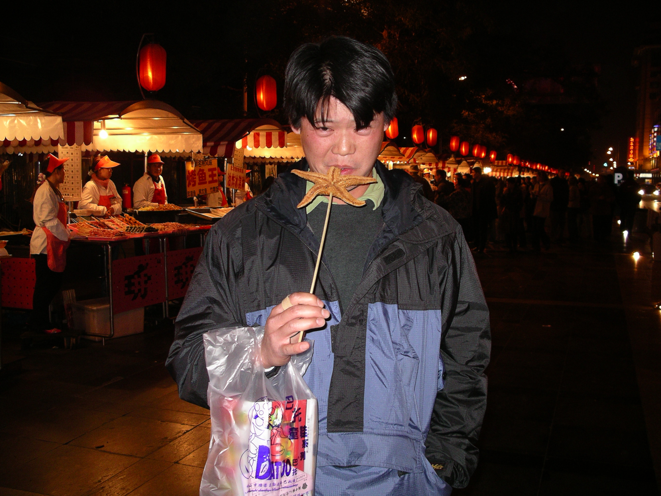 After bargaining hard (8 RMB), the street vendor deep fries the starfish for about 5 minutes and then spears it on a stick for Rob.